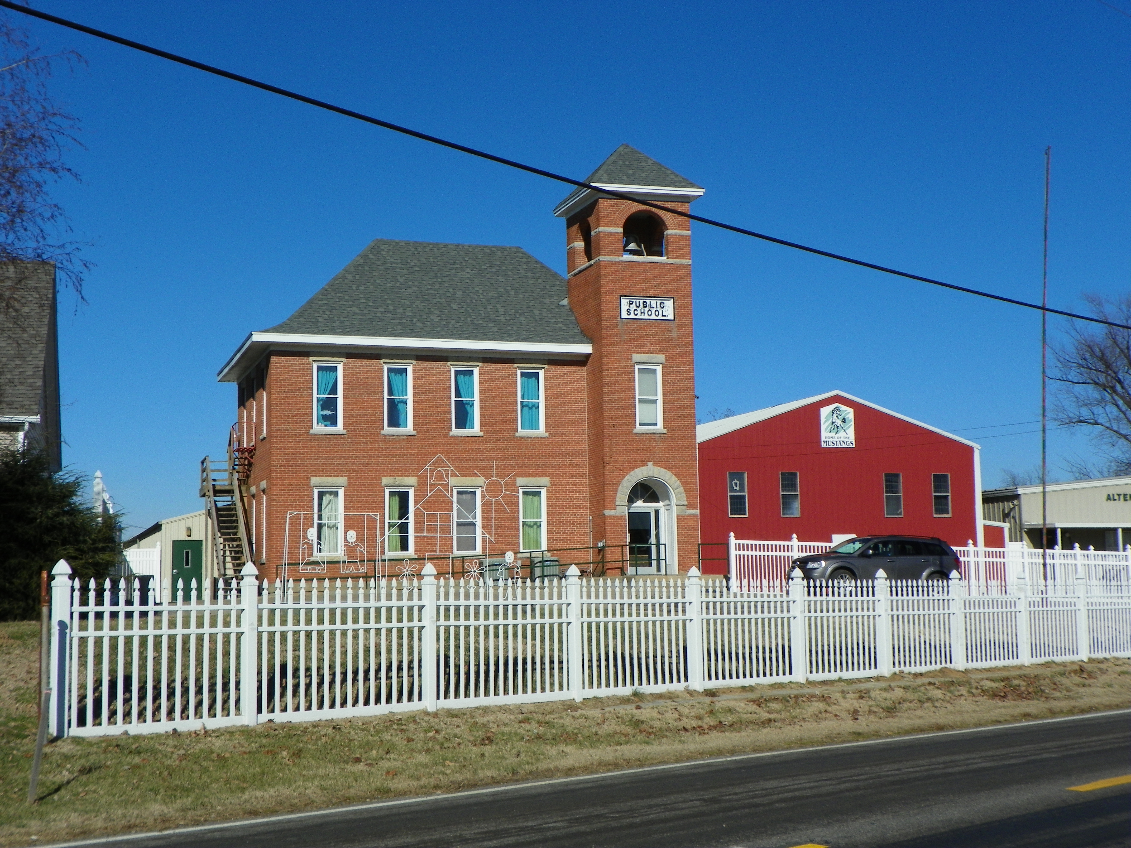 Altenburg, Missouri 48 Public School District